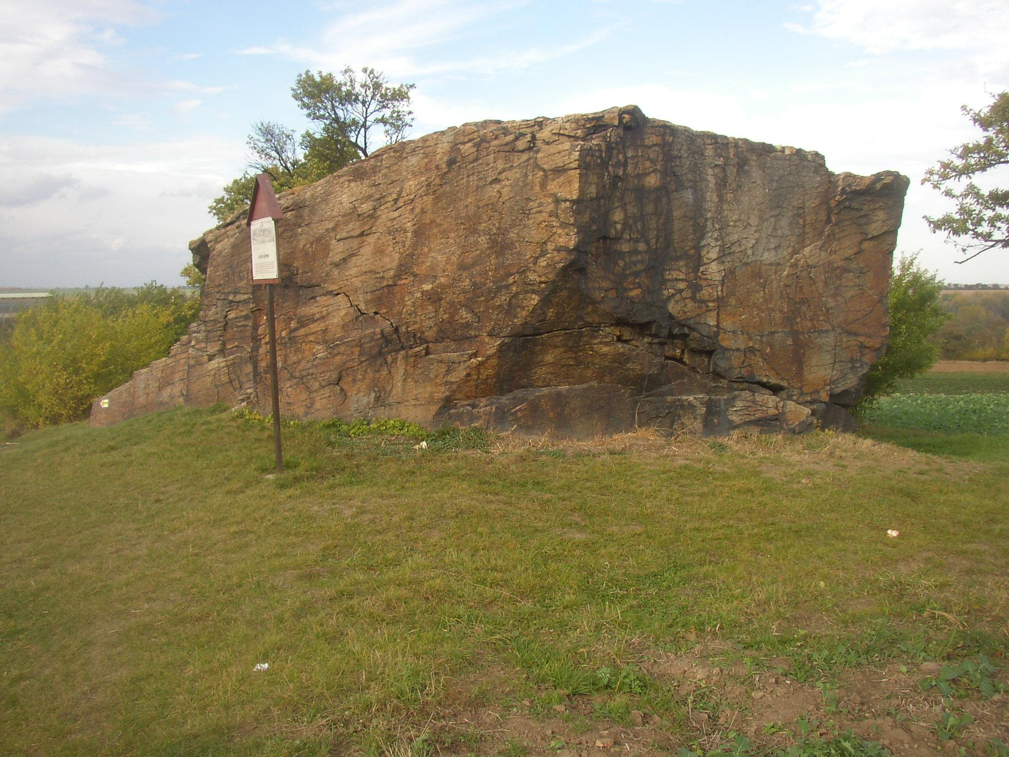 Lech's Stone near Kouřim, Czech Republic.